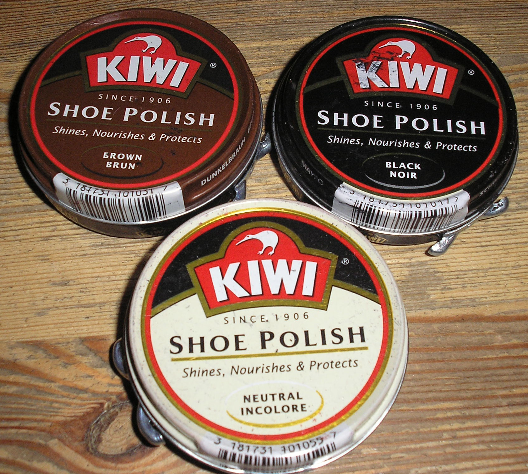 Shoe polishes for black,brown and white shoes